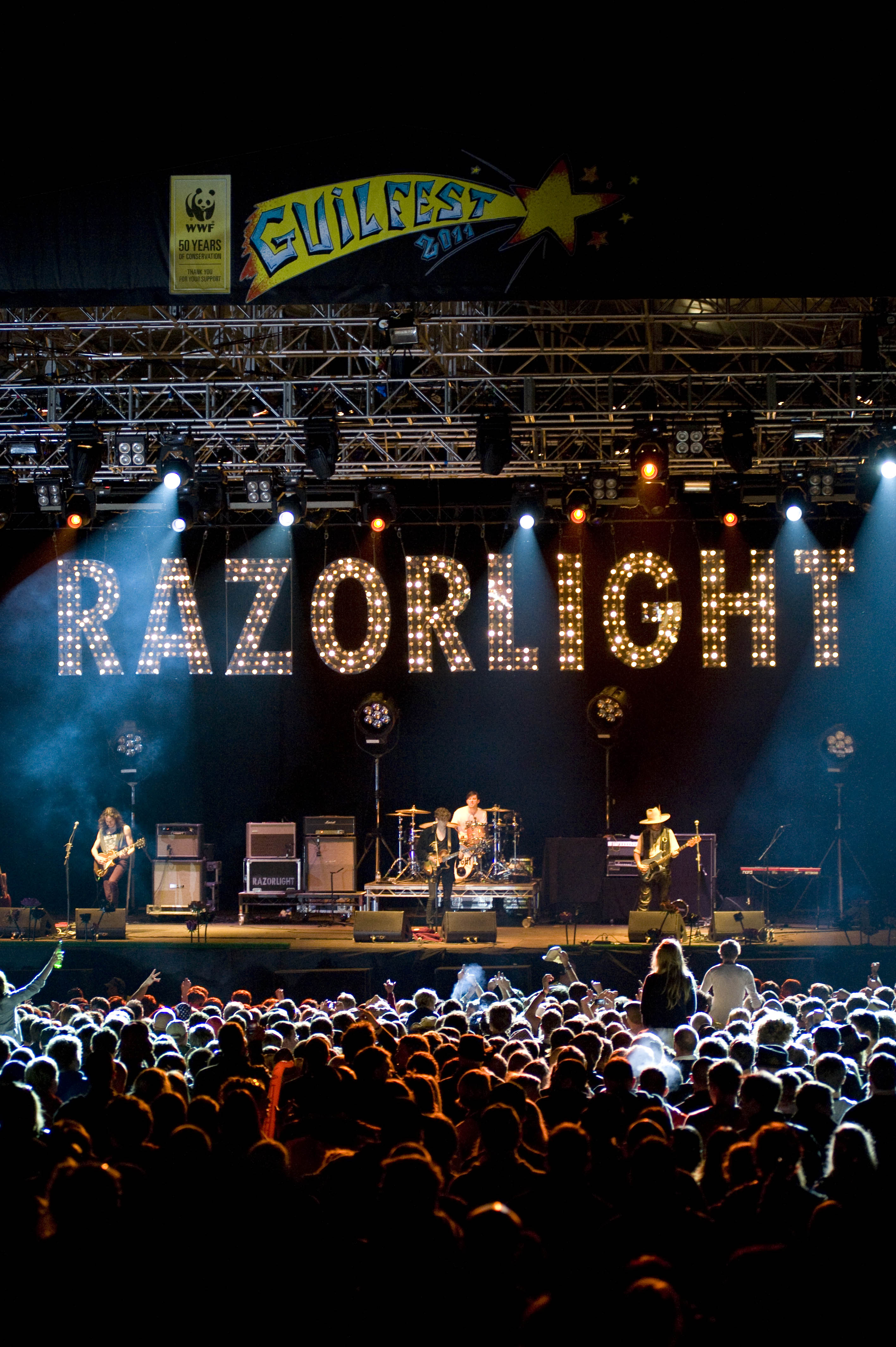 Razorlight at Guilfest in 2011